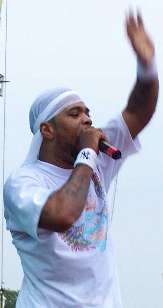 Method Man couldn't leave the crowd alone!